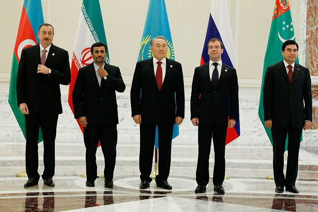 Heads of state – participants in the third Caspian Summit. They are (left to right) President of Azerbaijan Ilham Aliyev, President of Iran Mahmoud Ahmedinejad, President of Kazakhstan Nursultan Nazarbayev, President of Russia Dmitry Medvedev, and President of Turkmenistan Gurbanguly Berdimuhamedow.